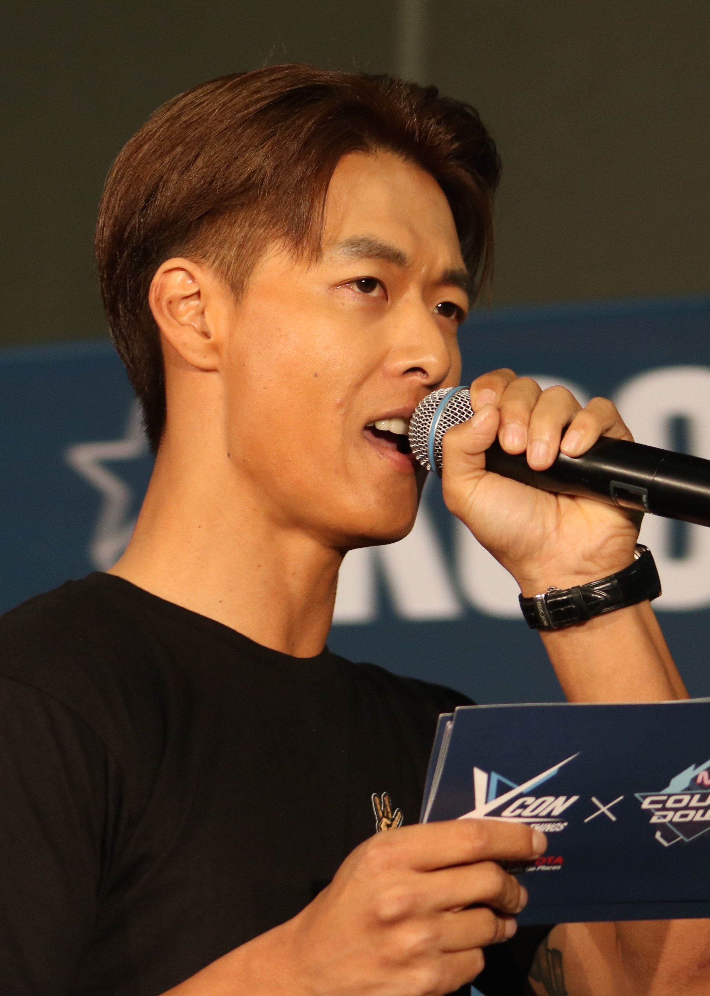 Danny Im at the KCON LA 2016 Red Carpet